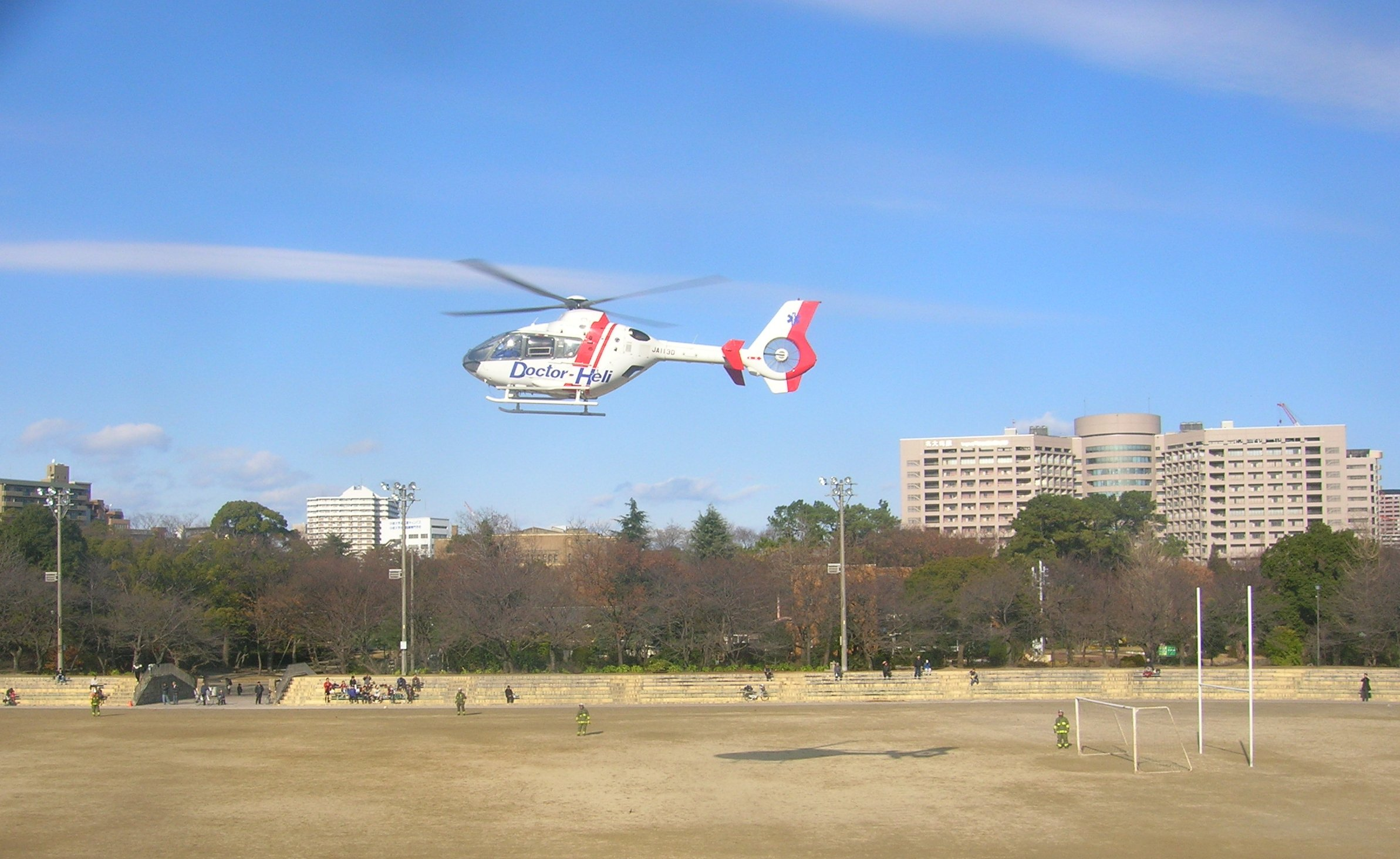 Doctor Helicopter - Japanese Air Ambulance. Loc: Tsuruma park, Shōwa-ku(Shōwa ward), Nagoya city, Aichi Prefecture, Japan グラウンドに着陸するドクターヘリ。 撮影場所 愛知県名古屋市昭和区・鶴舞公園。